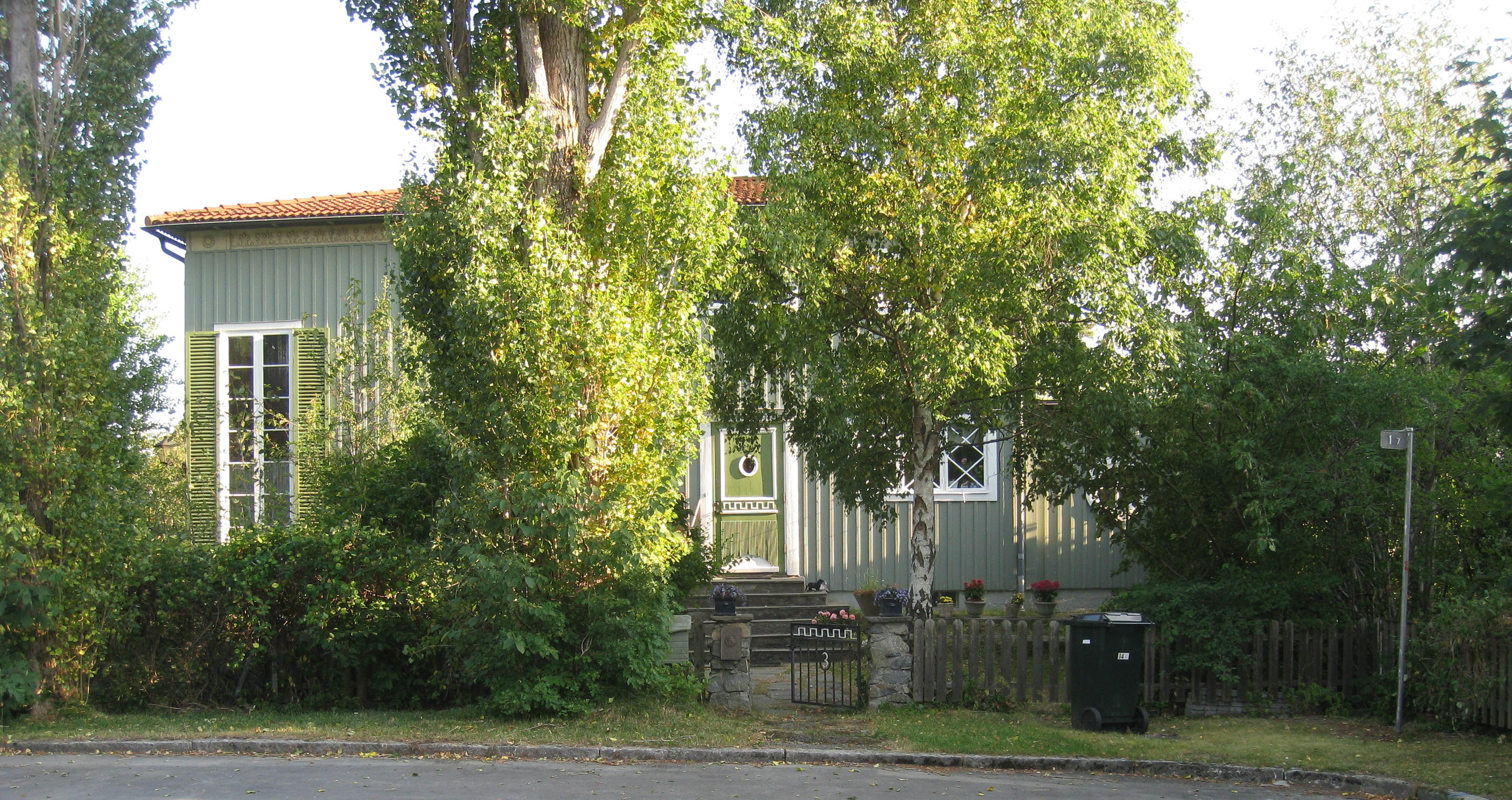 The artist Einar Forseth's villa in Hallingsbacken 3 in Ålsten, Bromma, western Stockholm, was built in 1925. The architect Björn Hedvall realized Einar Forseth's artistic ideas.